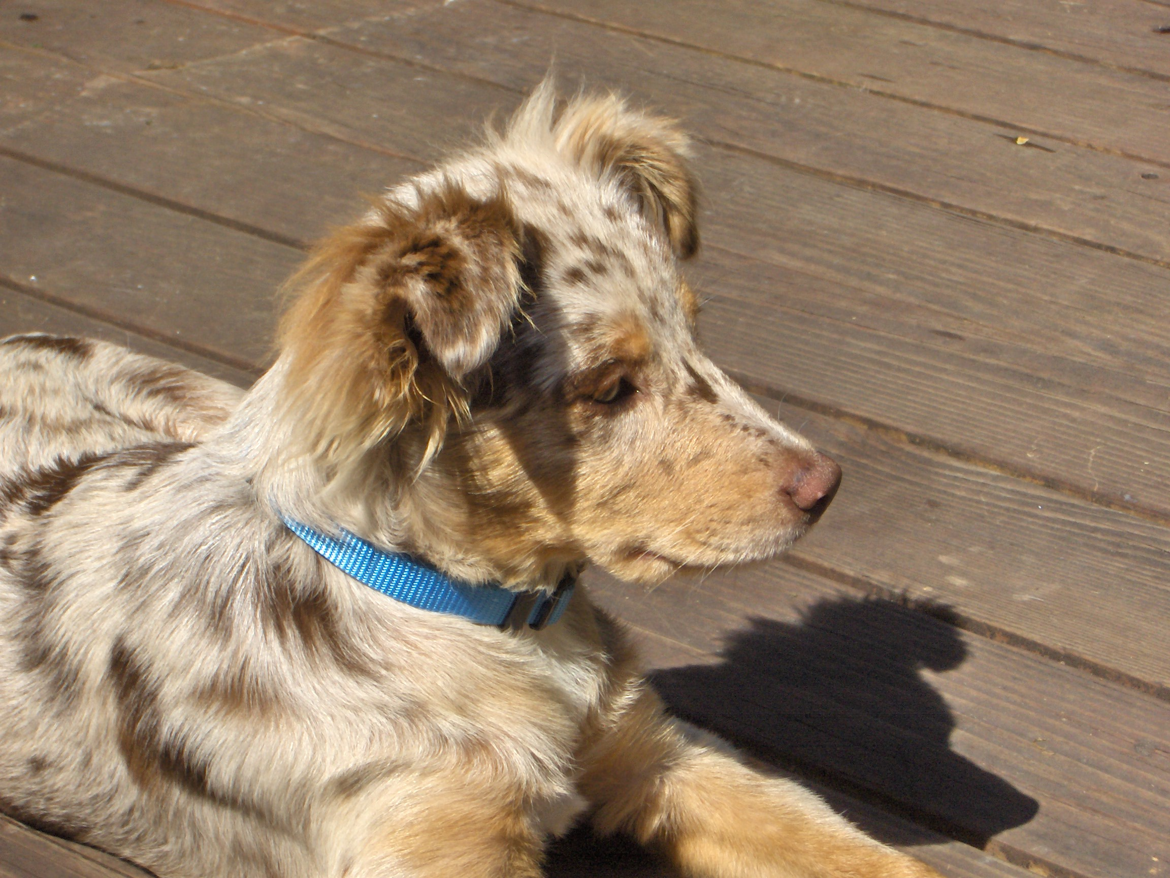 A female red-merle Australian Shepherd puppyLolita